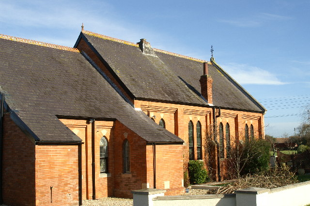 Former chapel at East Huntspill, Somerset